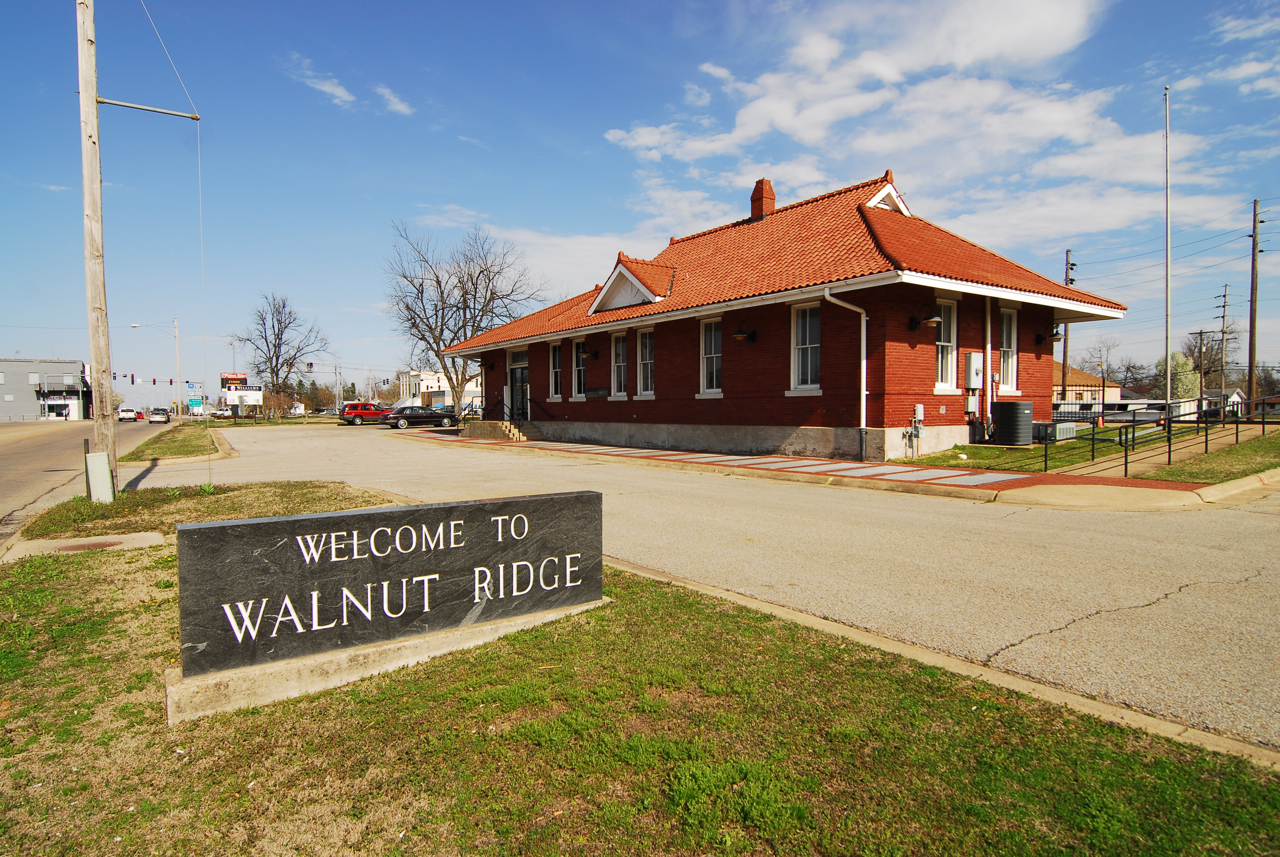 Walnut Ridge, AR train station. Its also an Amtrak stop, one of three in the state.